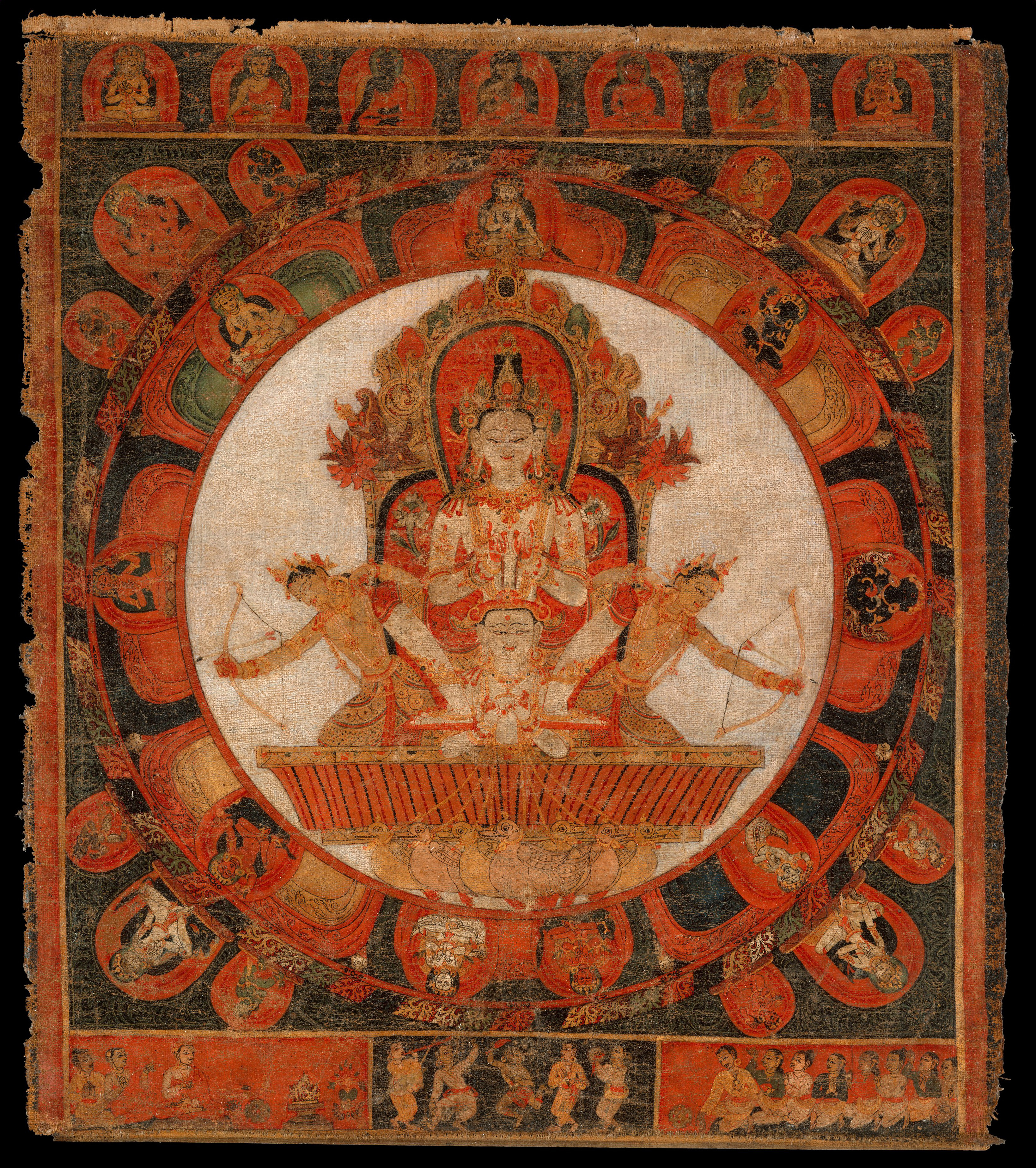 Mandala of Chandra, God of the Moon. Nepal (Kathmandu Valley), early Malla period. Distemper on cloth, 16 x 14 1/4 in. (40.6 x 36.2 cm).